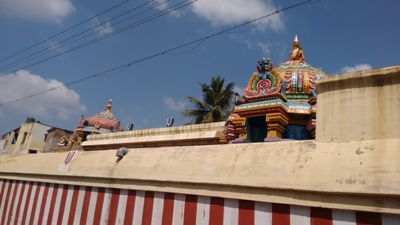 Tirumalisaipiran vimana திருமழிசைபிரான் சன்னதி விமானம் இணைப்பு